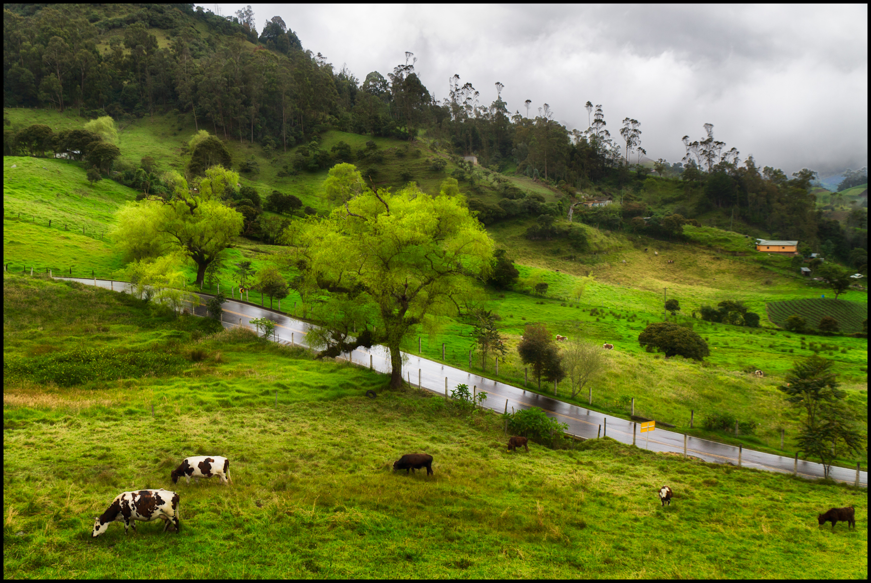 Rainy day created a wonderful landscape. THe mountains in COlombia are really beautiful.